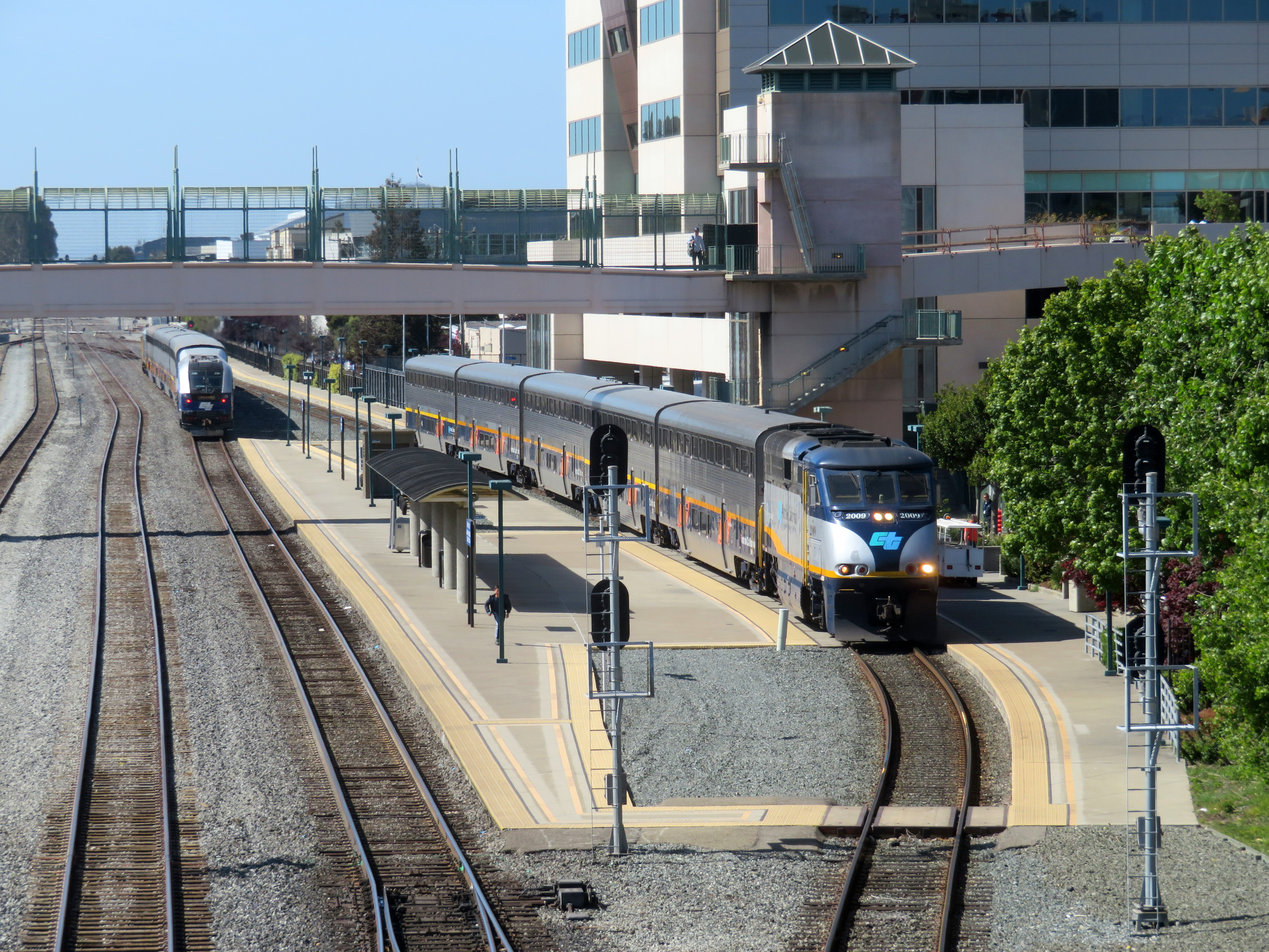 Bakersfield-bound San Joaquin (left) and Oakland-bound Capitol Corridor at Emeryville station in June 2018